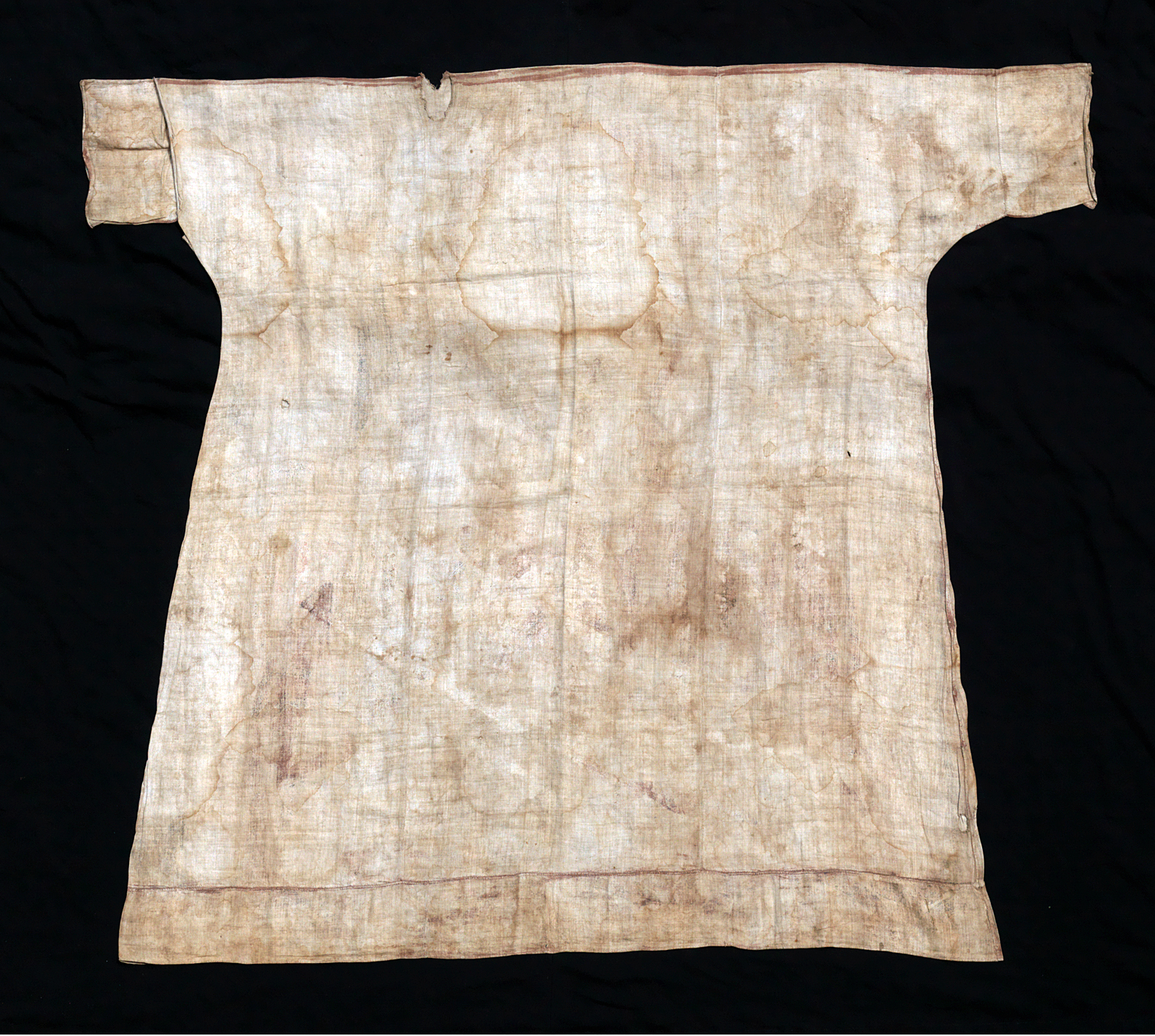 samoseli